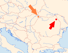 Location of Tokajer and Grasă de Cotnari Vineyards